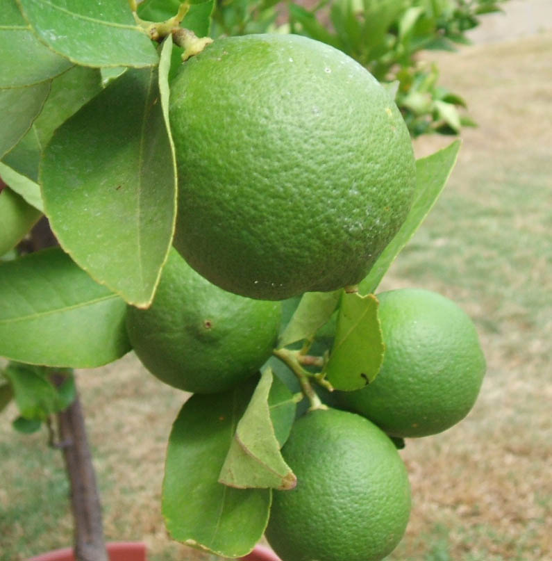 Unripened key limes growing in a backyard. Taken by me in my backyard on Sept. 15, 2006.